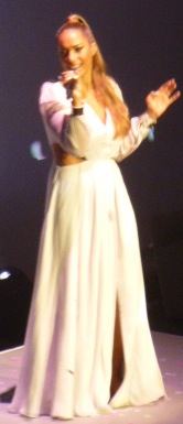 Leona Lewis, Royal Albert Hall, 9th May, Glassheart Tour 2013